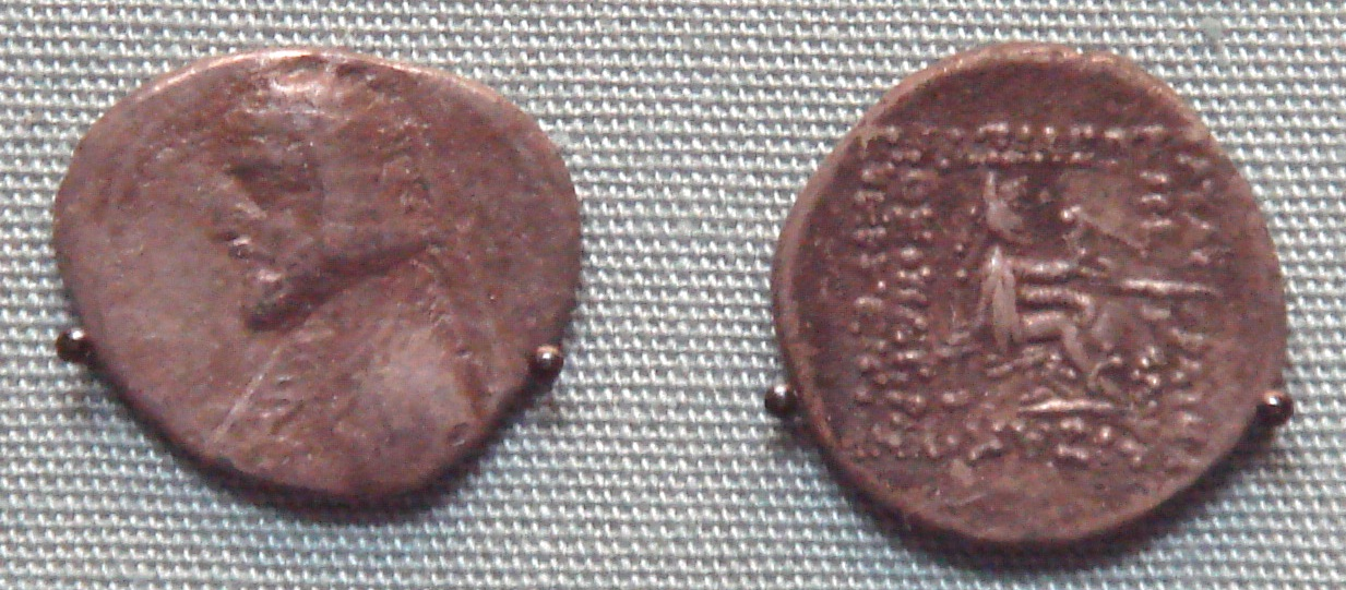 Coin of Gotarzes I